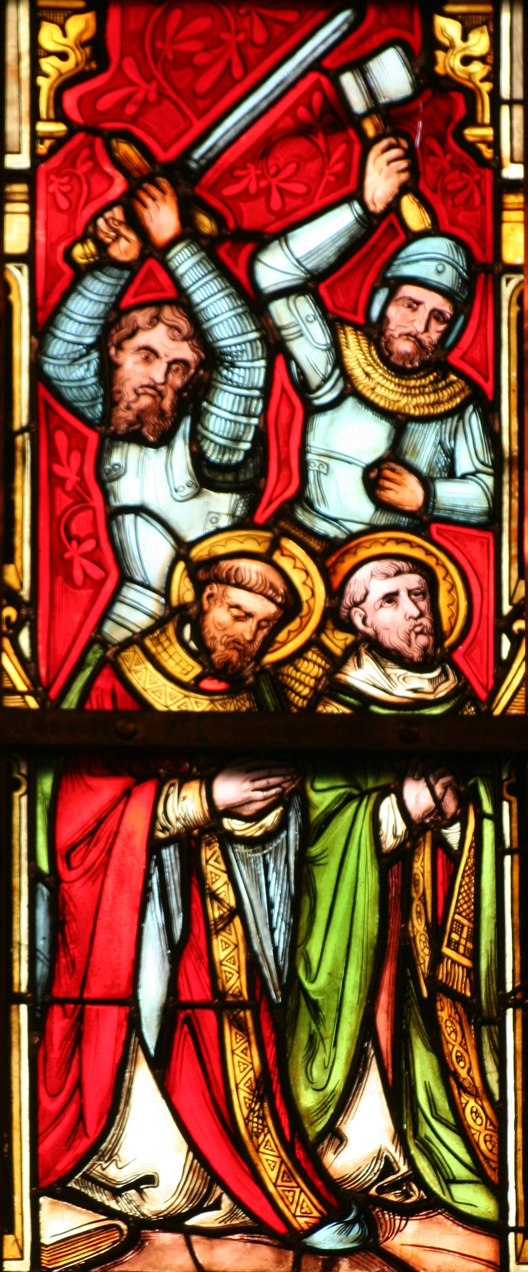 Stained glass window of the martyrdom of saint Ewald.